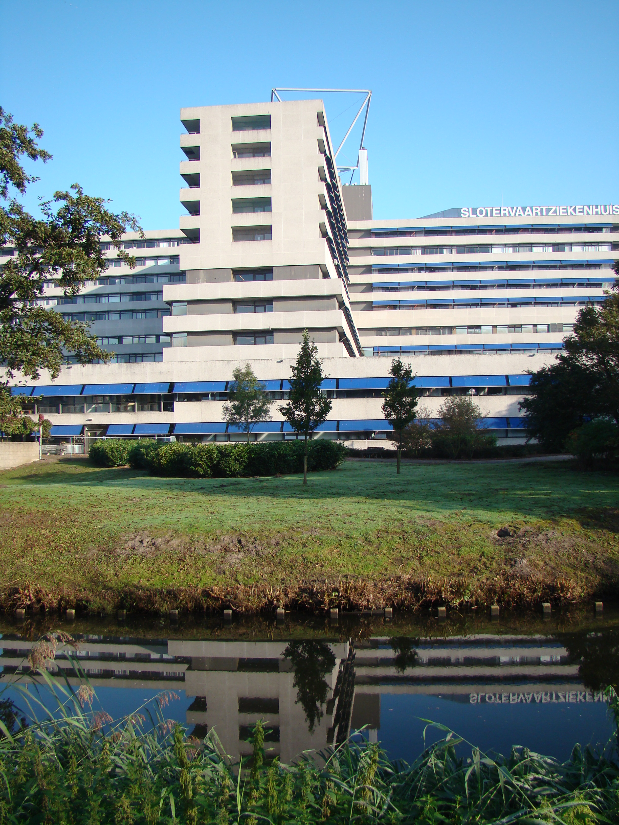 Slotervaartziekenhuis in Amsterdam, the Netherlands. General hospital, built in 1971 - 1975. Architect unknown, attributed to Dienst der Publieke Werken van de Gemeente Amsterdam (Department of Public Works of the Municipality of Amsterdam) with sculpture Gekantelde pyramide (1996) by P.H. Stulemeyer on the roof.